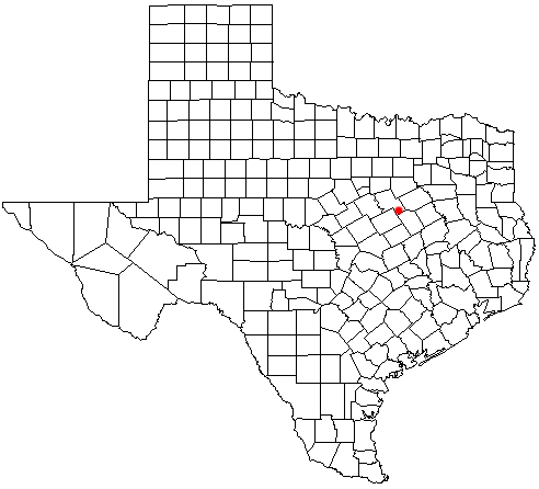 Birome, Texas location map; created with the GIMP. Made by User:Acntx.